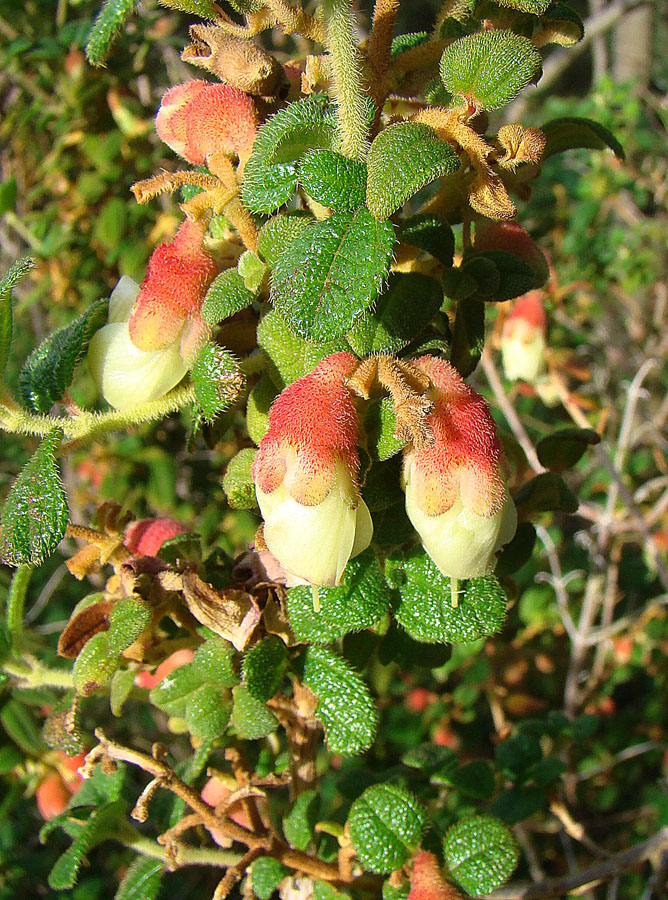 Native to the high paramos from Colombia to Peru. UC Berkeley Botanical Gardens. In context at